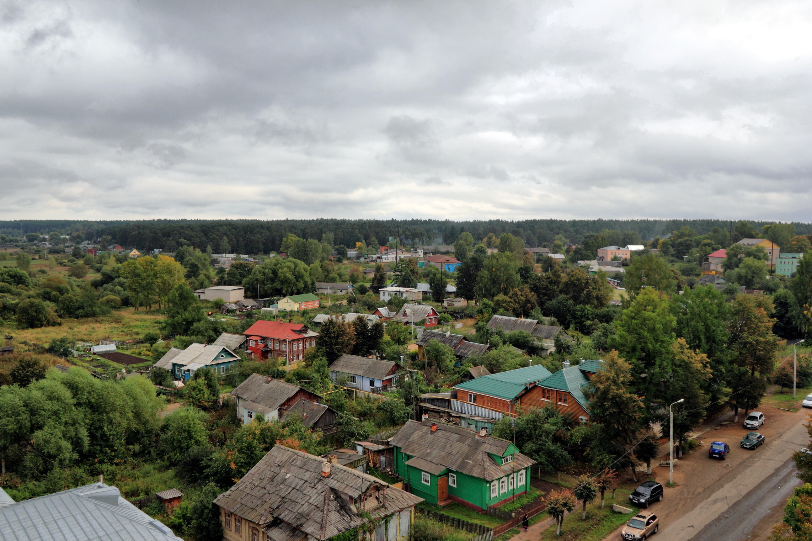 Borisoglebsky